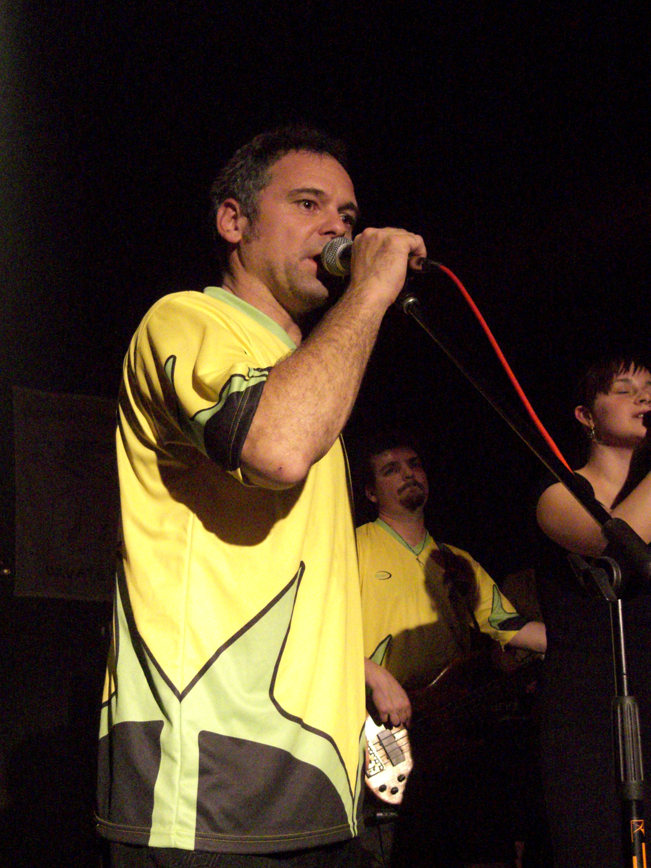 Míra Císler from czech ska mucis group Tleskač in Písek club Divadlo pod Čarou Czech Republic